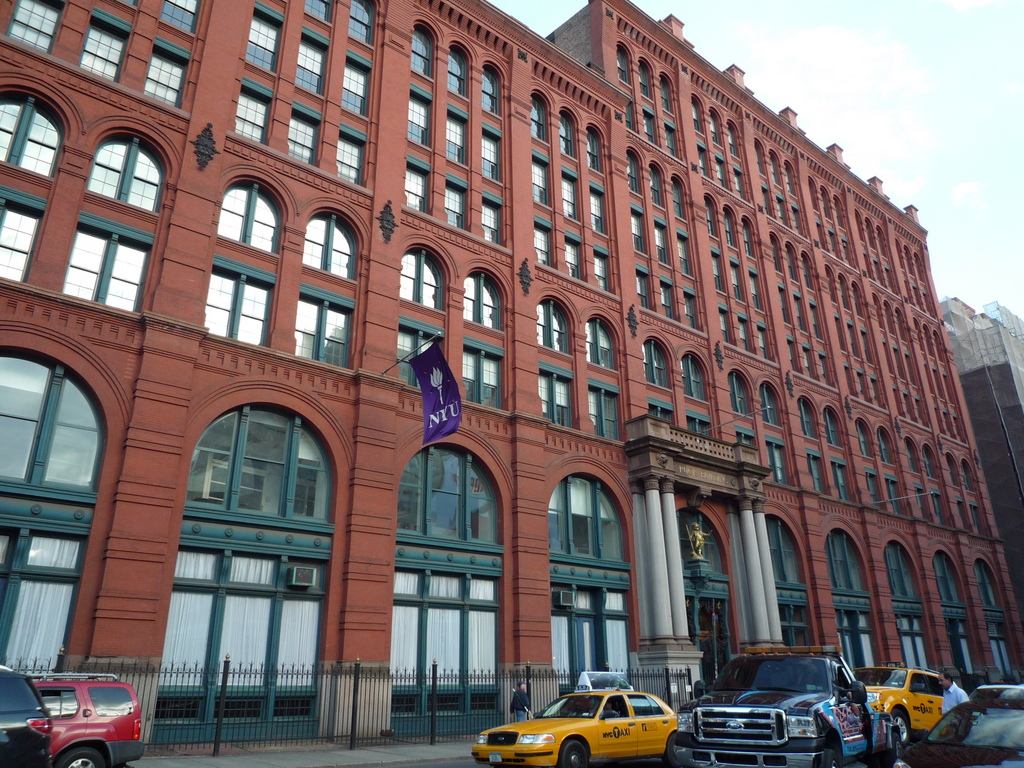 an image of the puck building in New York City from street level